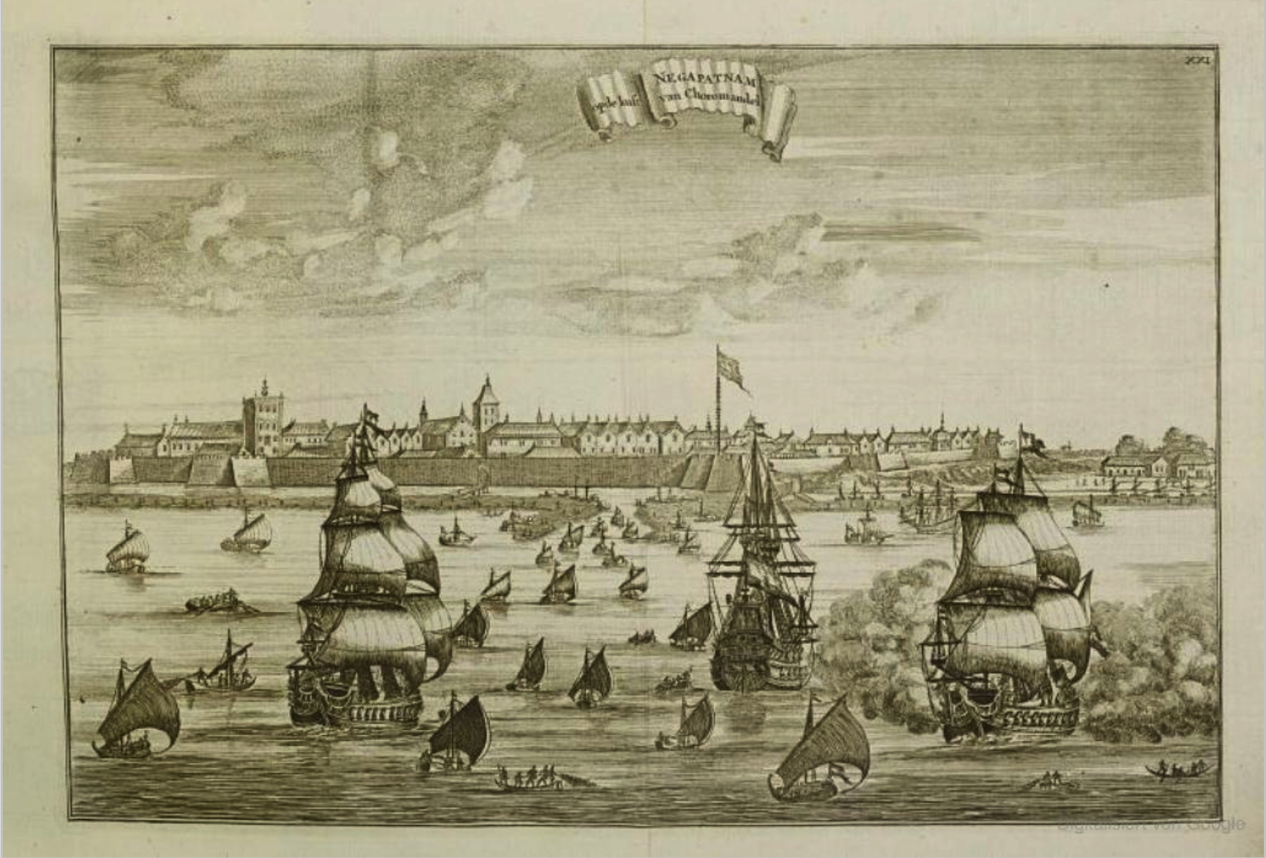 'Negapatnam van Choromandel', 18th century Dutch engraving of Nagapattinam after original engraving by Johannes Kip c. 1680